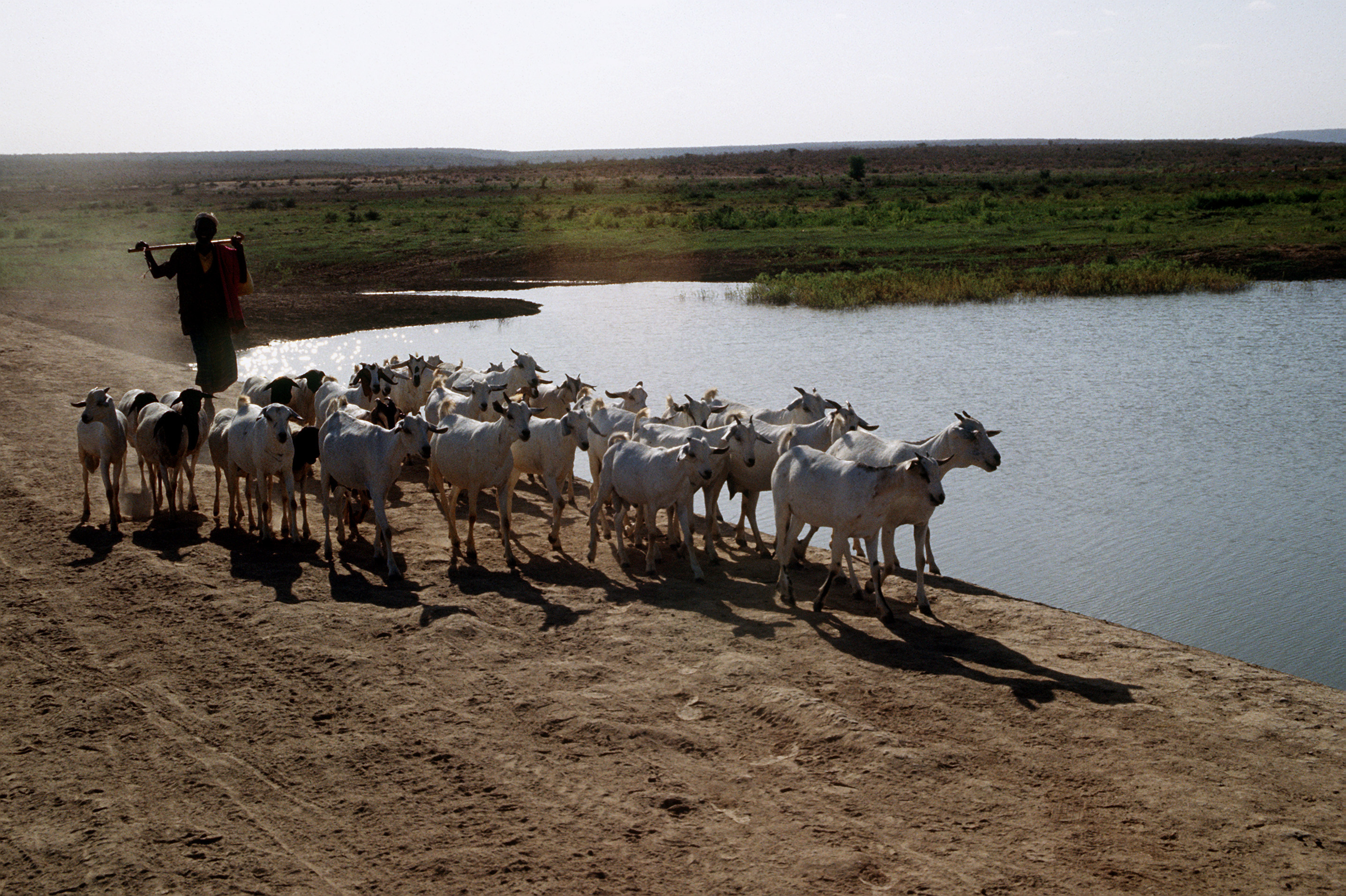 A Somali goat herder in the village of Belet Weyne